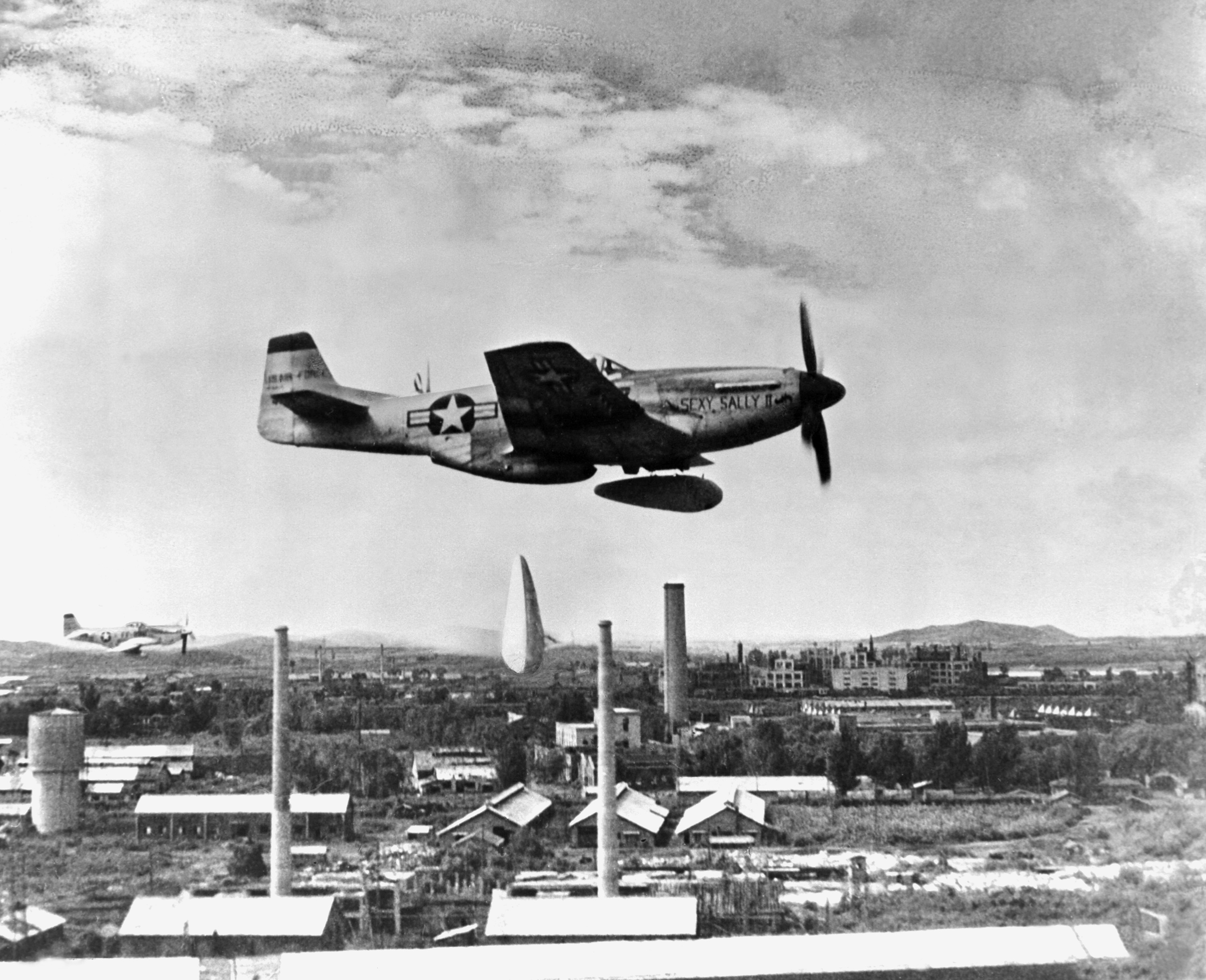 A U.S. Air Force North American F-51D-20-NA Mustang (s/n 44-72427) of the U.S. Fifth Air Force's 39th Fighter Interceptor Squadron, 18th Fighter Bomber Wing releases two napalm bombs over industrial military target in North Korea, in 1951. This aircraft was shot down by MiG-15s on 13 September 1951.